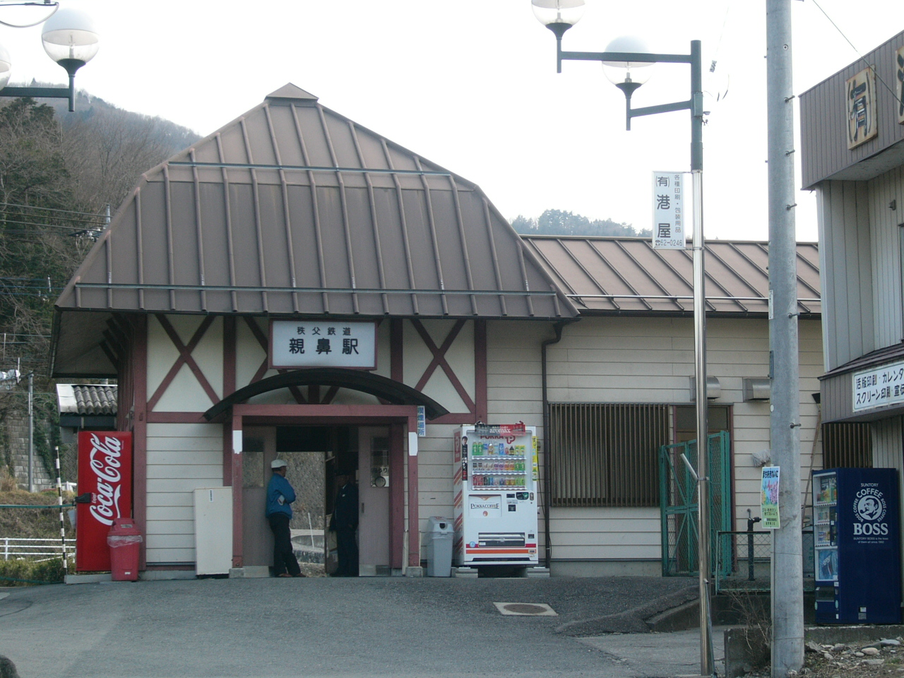 Oyahana Station on the Chichibu Main Line in Saitama Prefecture, Japan